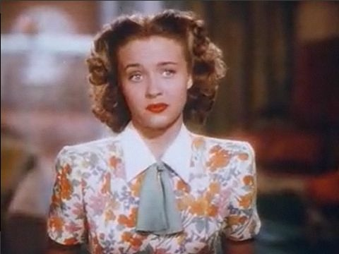 Screenshot of Jane Powell from the trailer for the film Three Daring Daughters